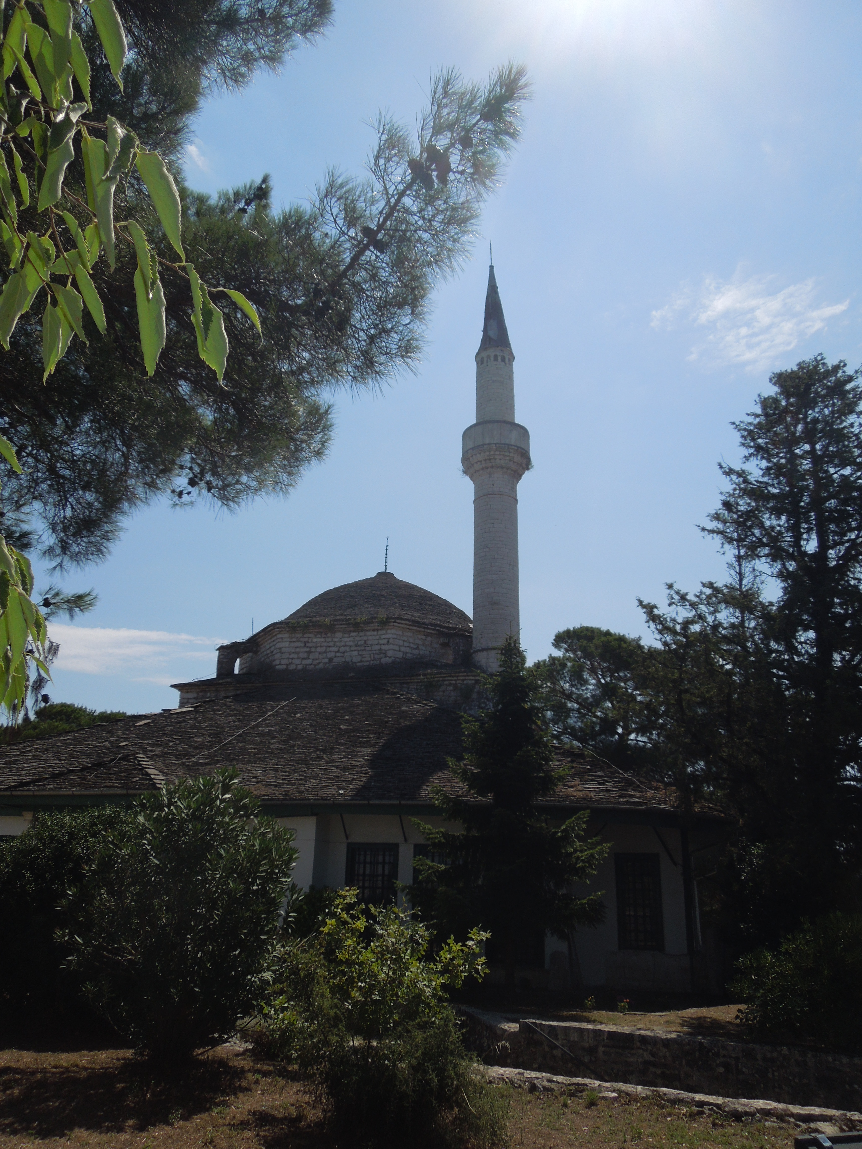 Fethiye Mosque in Ioannina, Greece (2015)